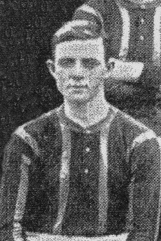 Norman Brown while with Brentford FC during 1907/08